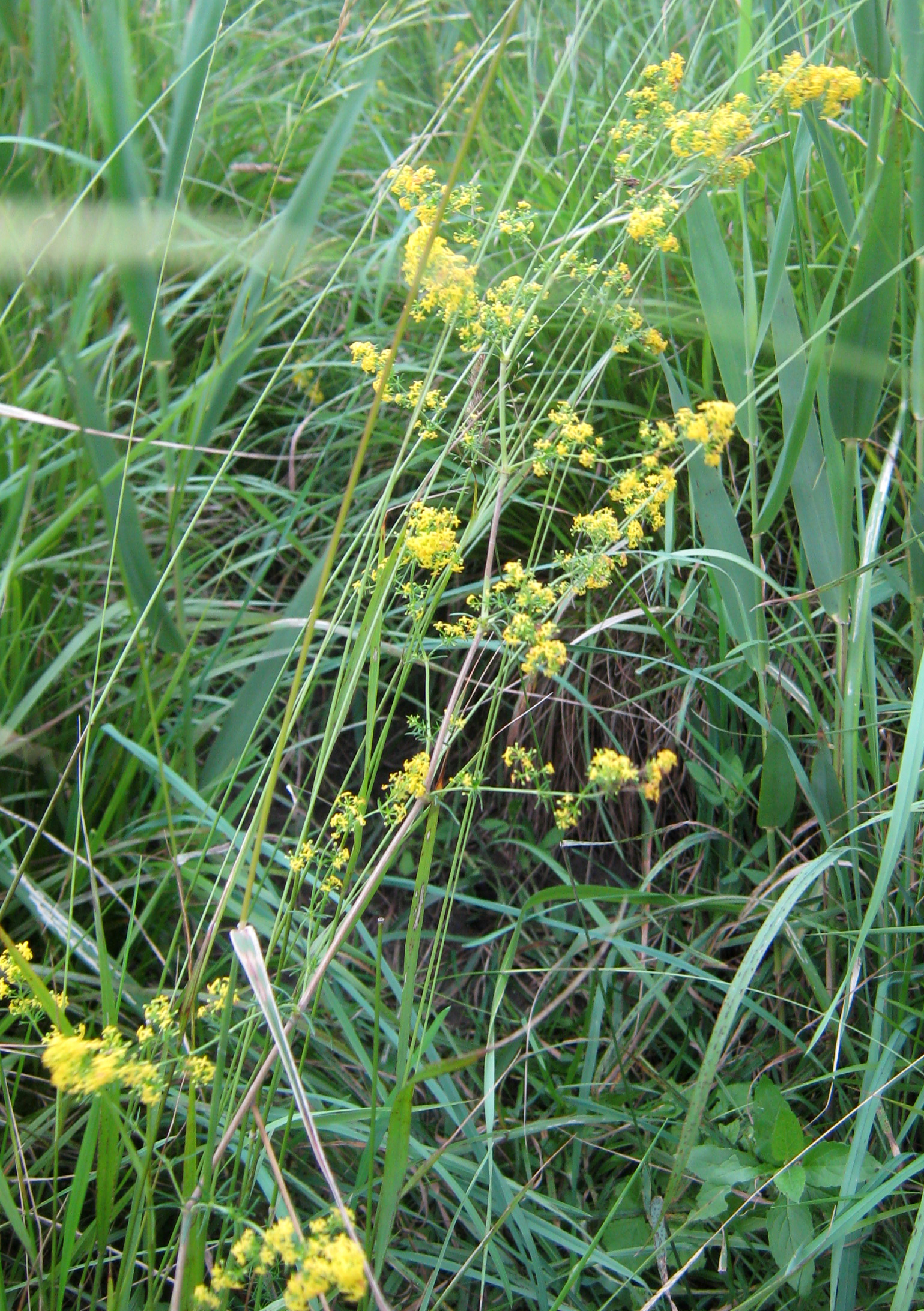 Galium wirtgenii F.W. Schultz (Wirtgen's Bedstraw). Hungary, Sopron, mokřiny u Neziderského jezera 0,7 km V od obce Fertöboz.